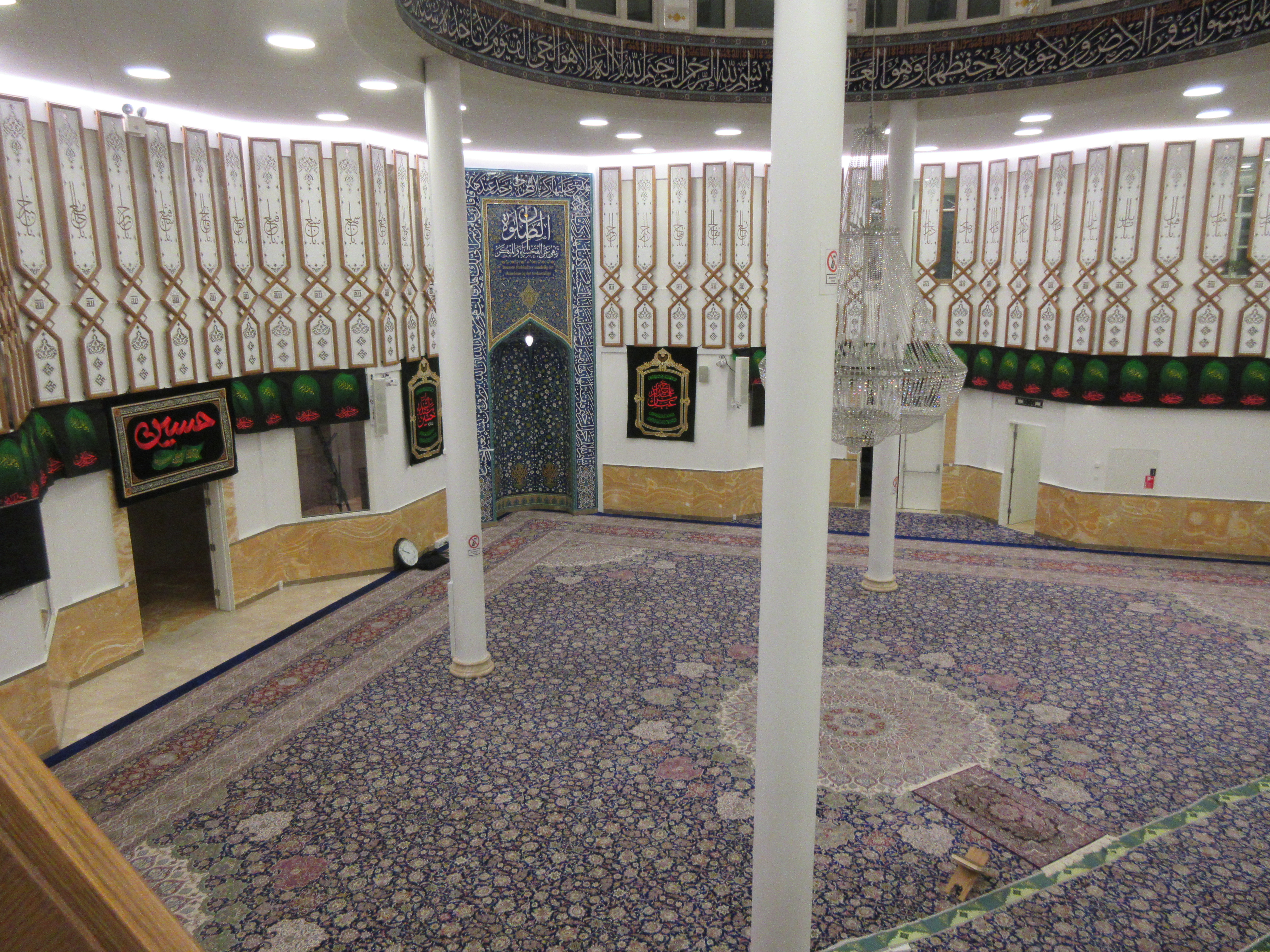 Det centrale bederum i Imam Ali-moskeen på Vibevej i København. Tæppet skulle efter sigende være det næststørste tæppe i en moske i Europa.